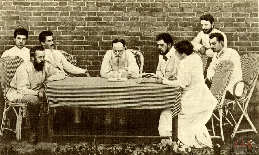 Leo Tolstoy (in center), 1892